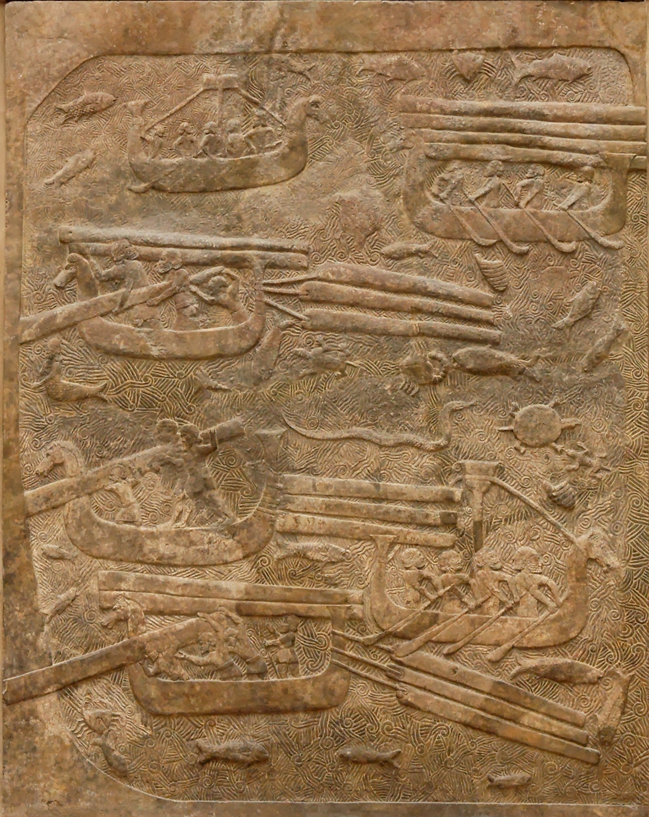 Transport of Lebanese cedar. Low-relief from the North wall of the main court, palace of Sargon II at Dur Sharrukin in Assyria (now Khorsabad in Iraq), ca. 713–716 BC.